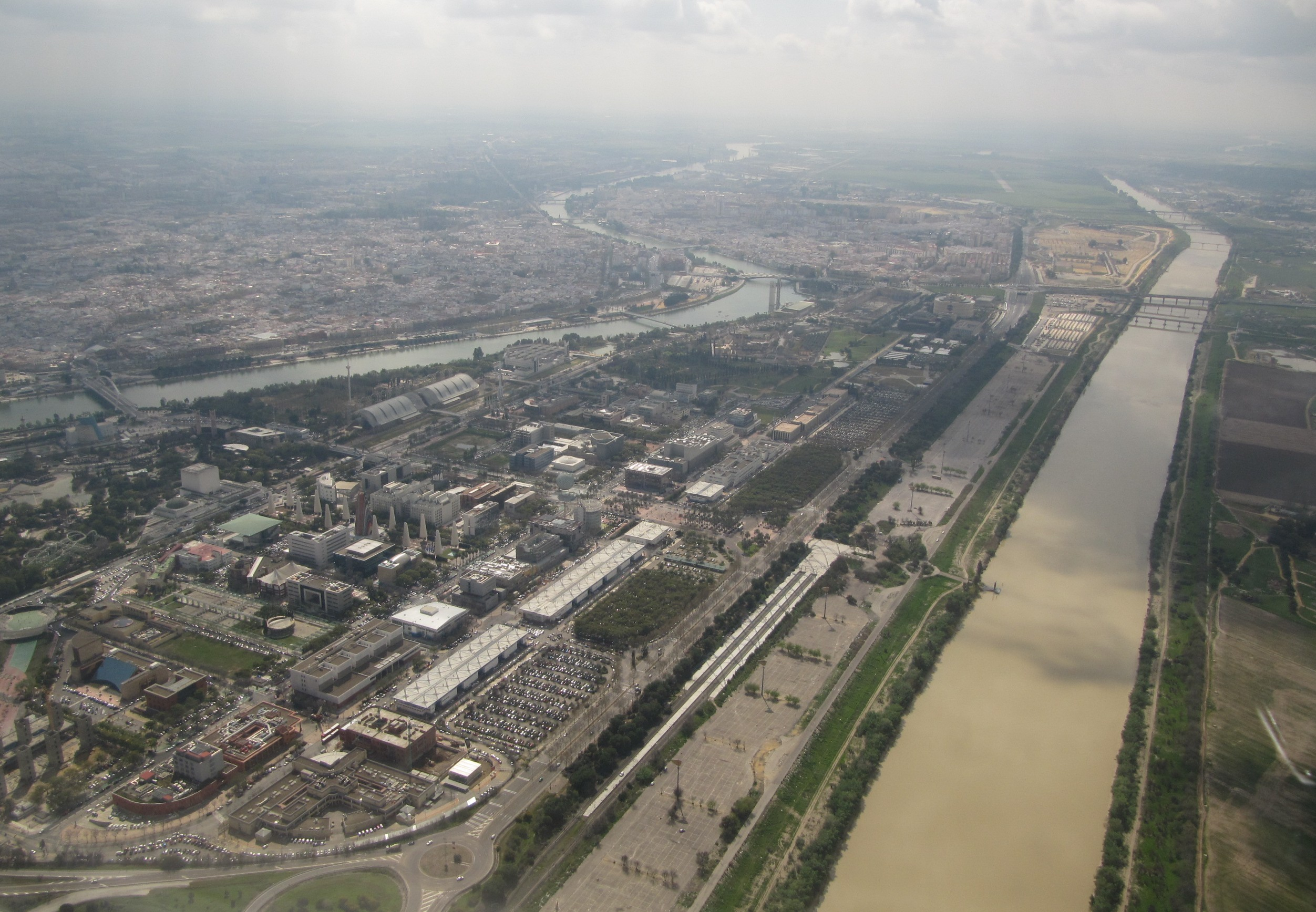 The site of the universal exposition of 1992, in Seville (Spain)